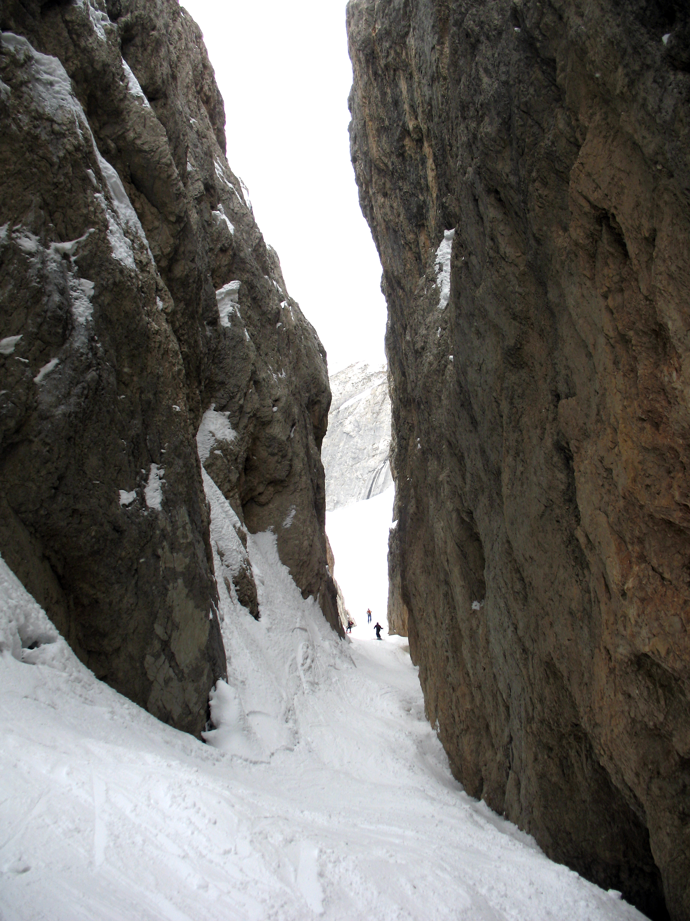 Skiing through the canyon on the Marmolada